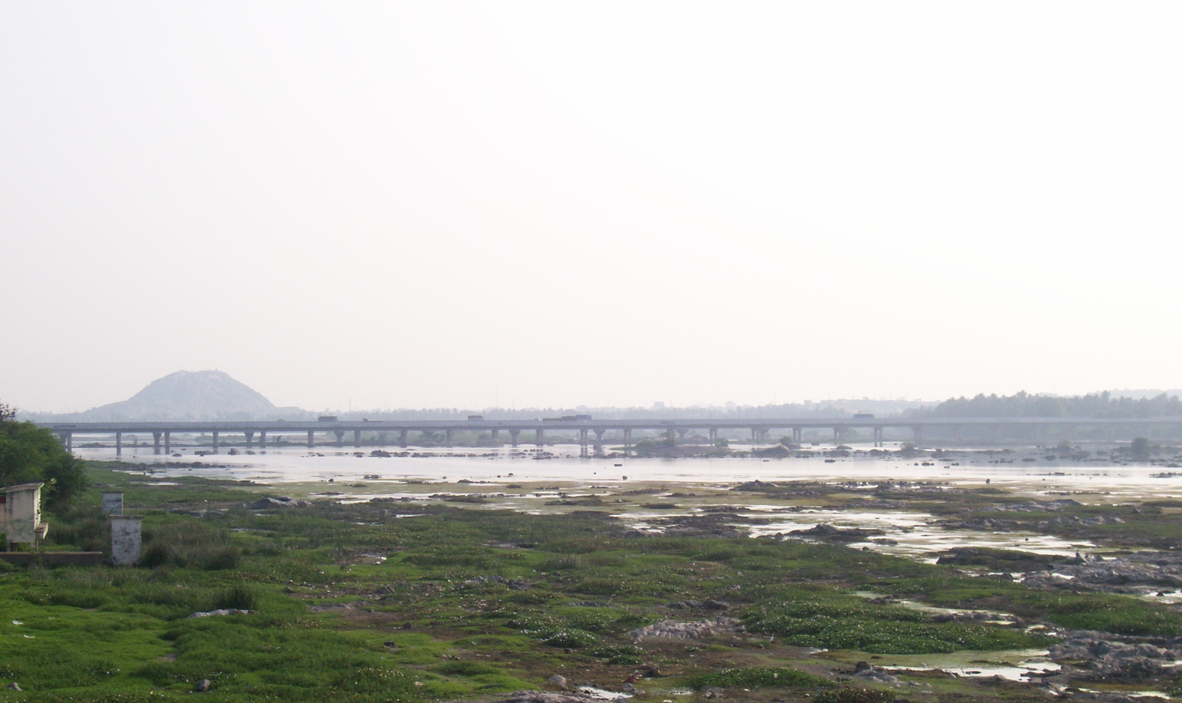 New bridge over the Kaveri River.